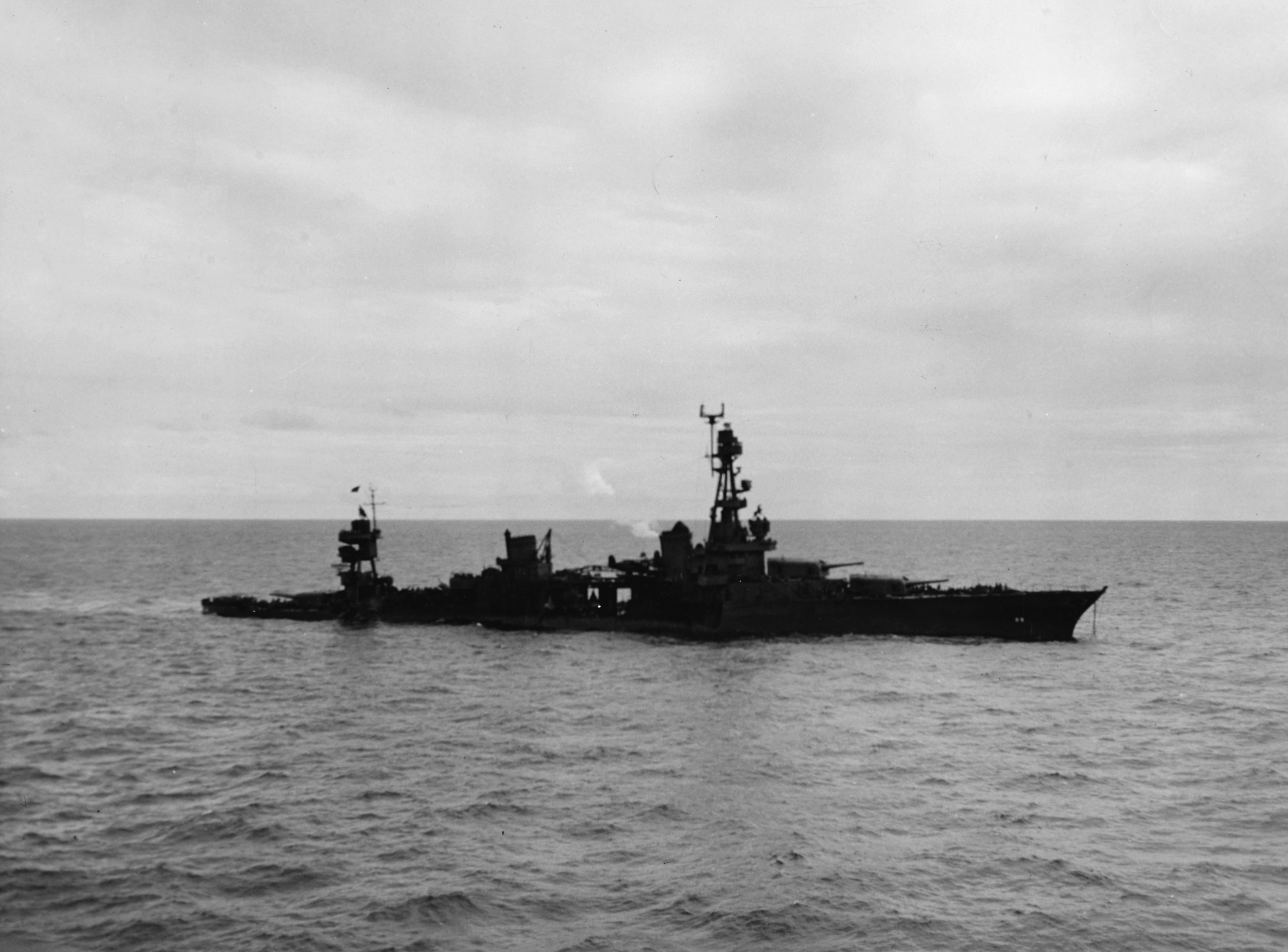 The U.S. Navy heavy cruiser USS Chicago (CA-29) low in the water on 30 January 1943, after she had been torpedoed by Japanese aircraft during the Battle of Rennell Island.